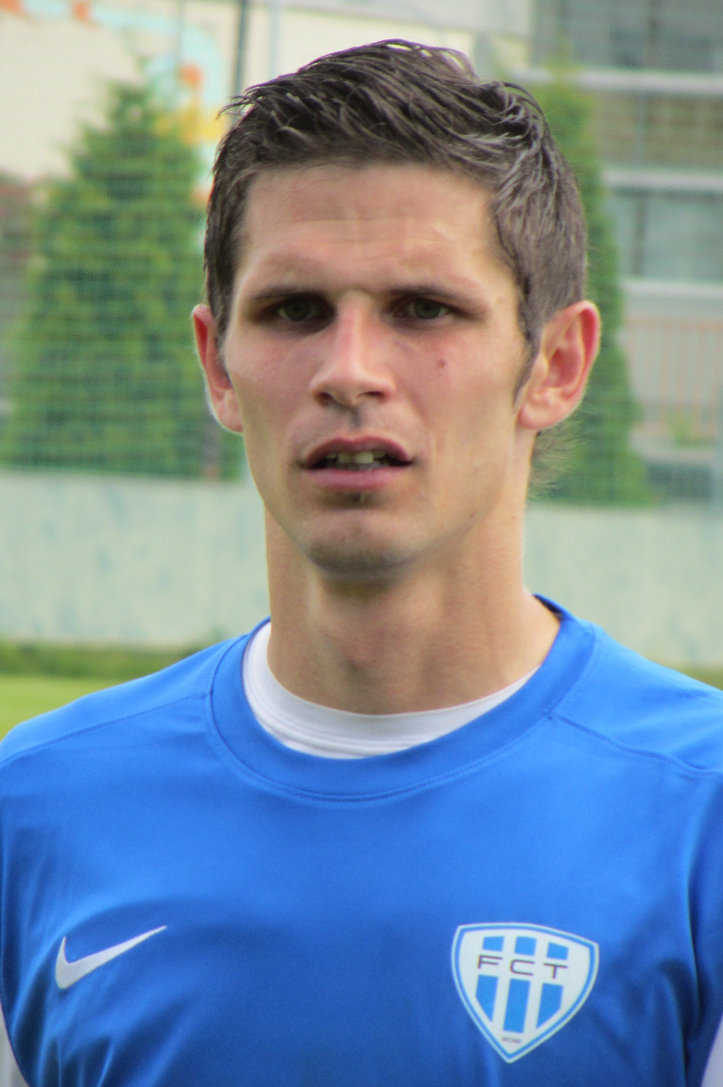 Petr Javorek of FC Táborsko after the match against Loko Vltavín